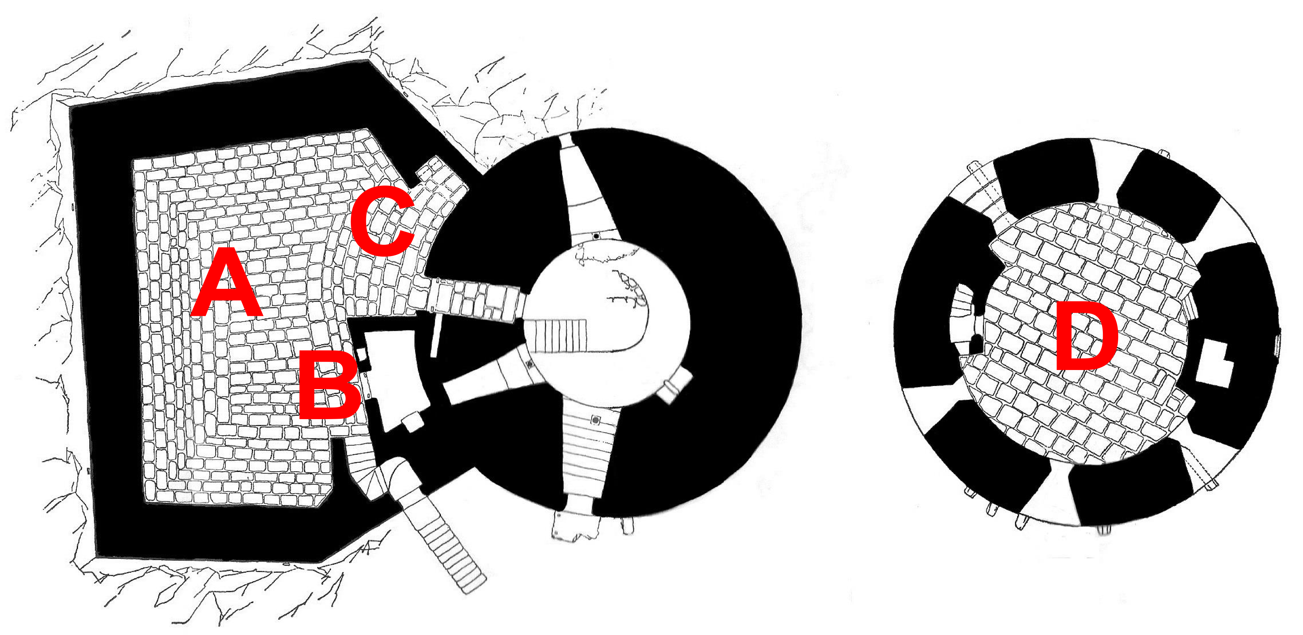 Cromwell's Castle plan with roof